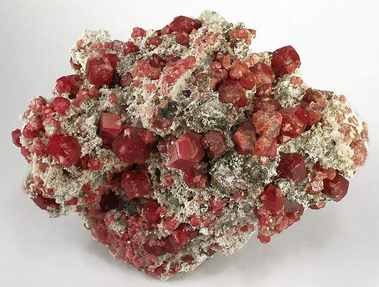 Grossular Locality: Sierra de la Cruz, Municipio de Sierra Mojada, Coahuila, Mexico (Locality at ) Size: 14.7 x 11.7 x 6.4 cm. This is a large plate with dozens of crystals, to 1.5 cm, and a lot of color spread out on that stark white matrix. These garnets are called raspberry garnets by many people for their unique color and sharp form.